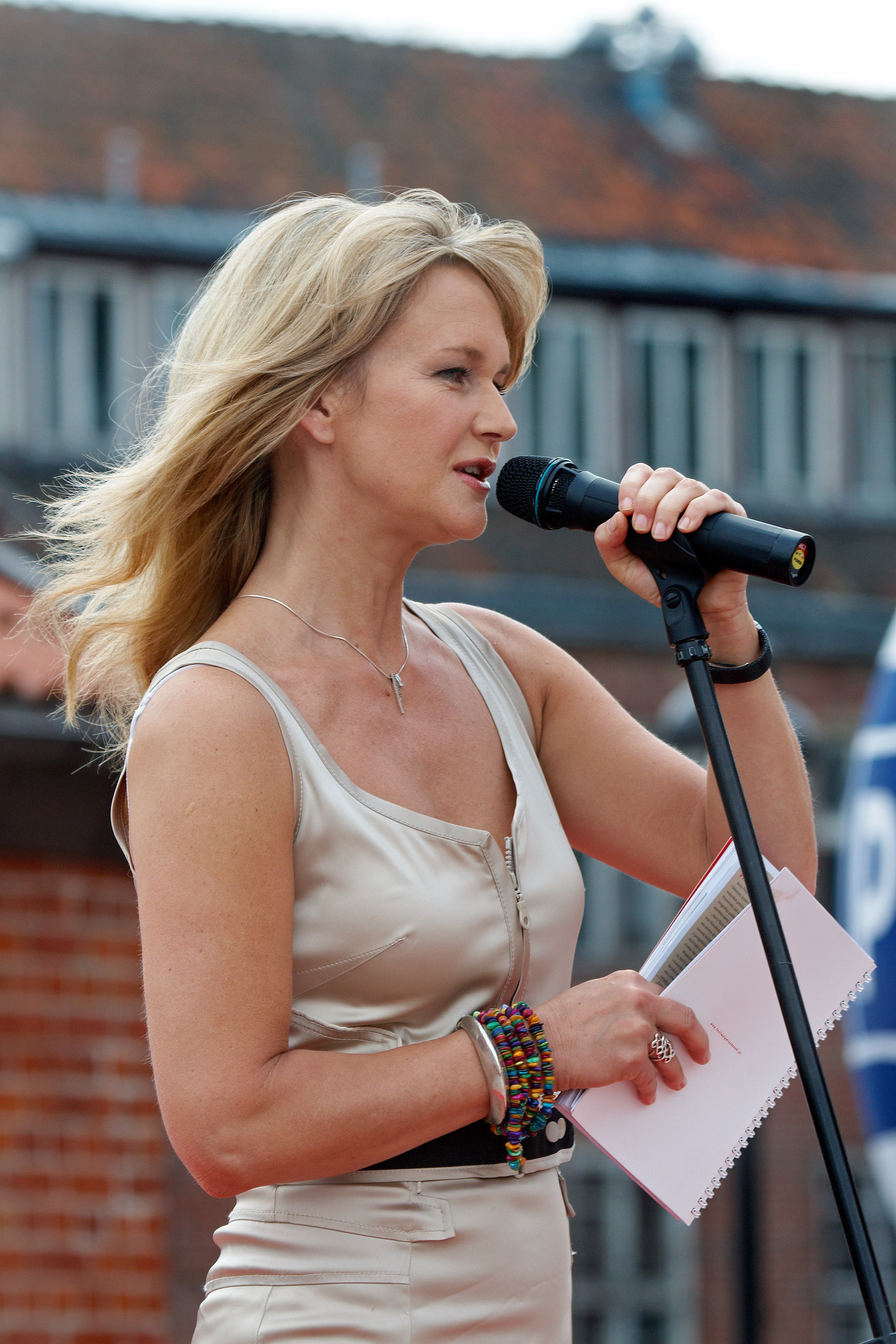 Grażyna Torbicka - Festiwal Gwiazd in Gdańsk, 2008